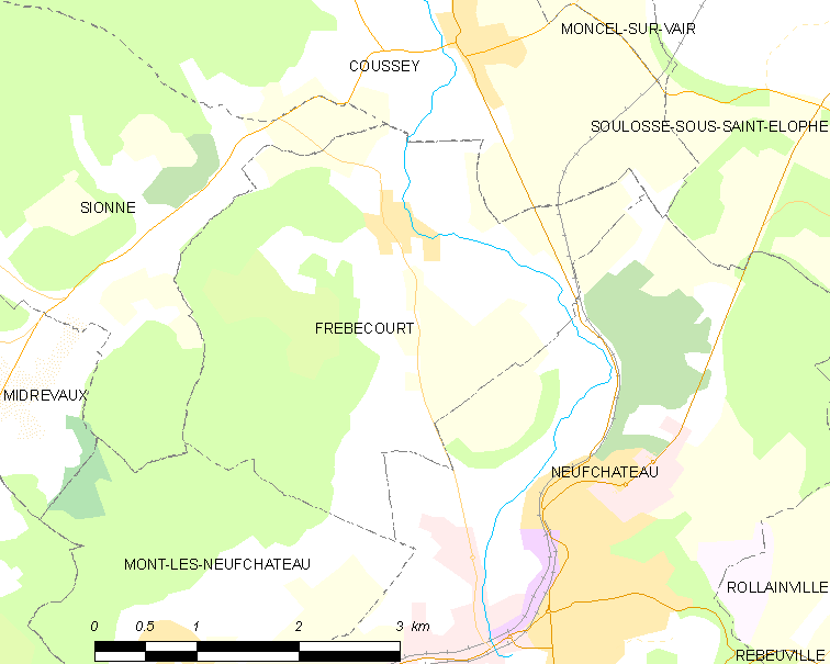 Map of French municipality Frebécourt